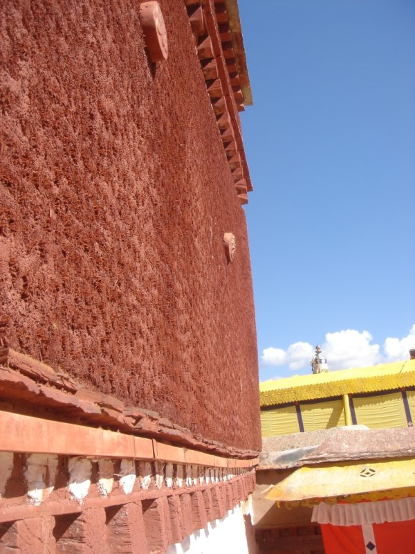 Photographer: Philipp Roelli (2005) released under the GFDL by creator